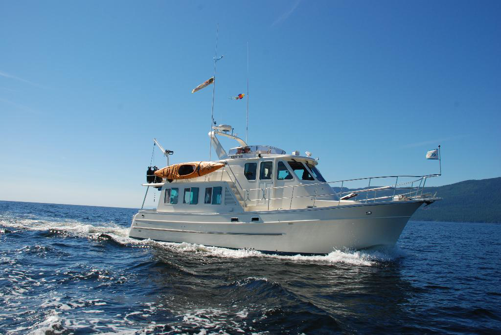 A North Pacific 43 ft. Yacht underway